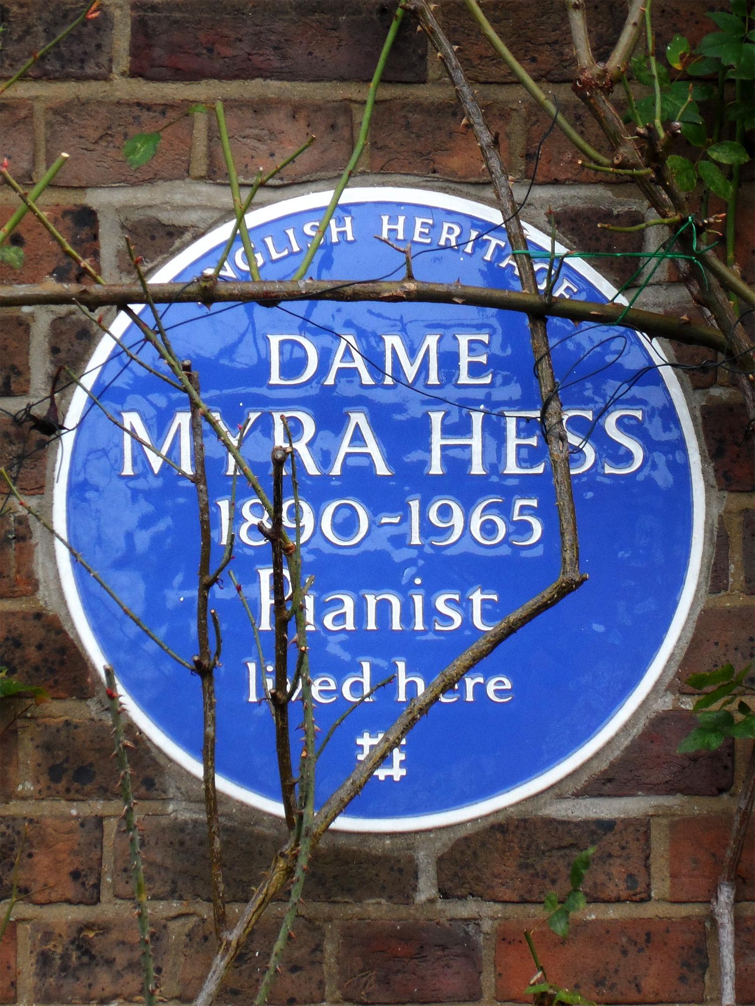 Blue plaque erected in 1987 by English Heritage at 48 Wildwood Road, Hampstead Garden Suburb, London NW11 6UP, London Borough of Barnet